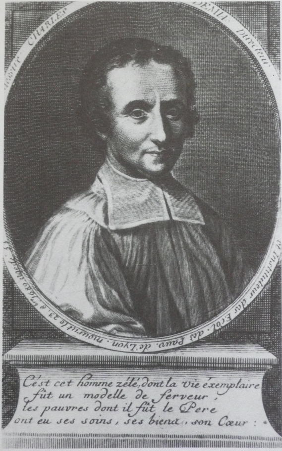 Charles Demia (1637-1689)